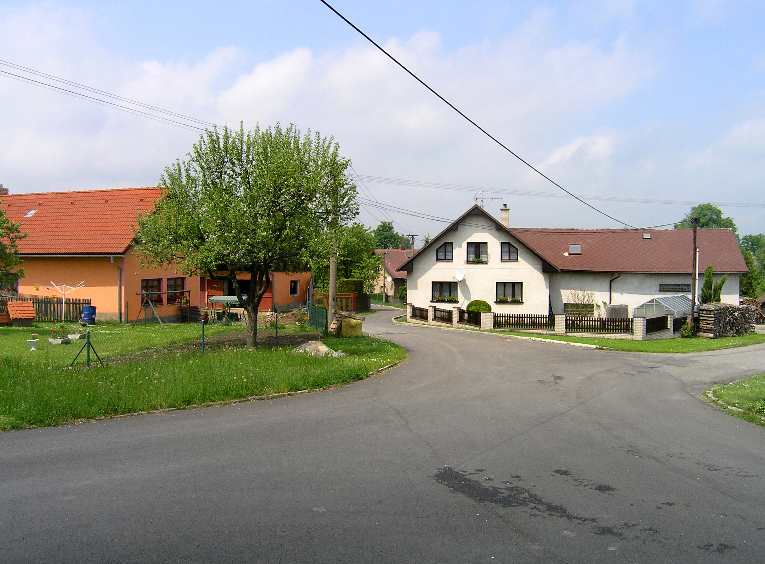 Rankov, part of Chotěboř town, Czech Republic